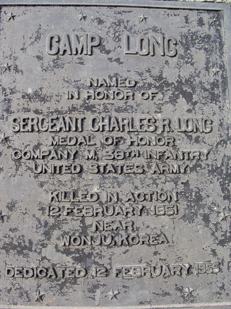 Memorial Plaque for Sergeant Charles R. Long, US Medal of Honor recipient, at US Army Garrison Camp Long, which is named in his honor.